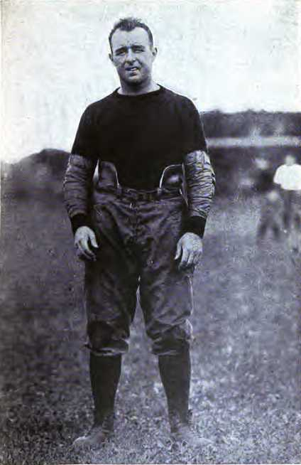 Photograph of early American football player and coach Charles E. Brickley from Daly, Charles Dudley (1921) American Football, Category:New York: Harper, pp. 101 OCLC 1445510.